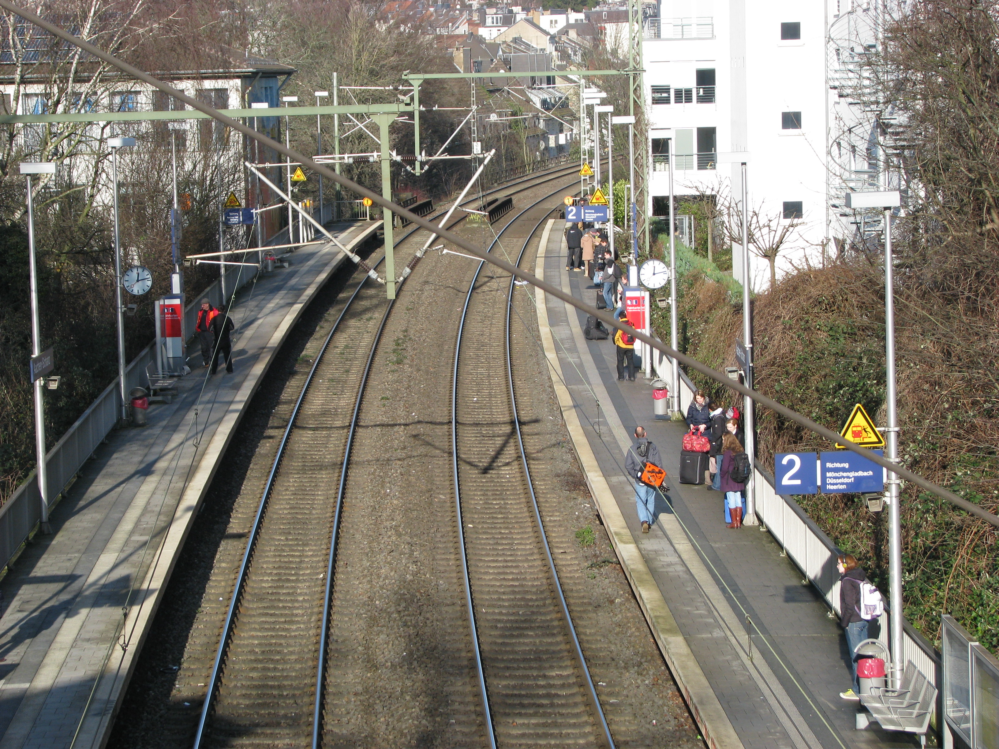 Aachen Schanz station